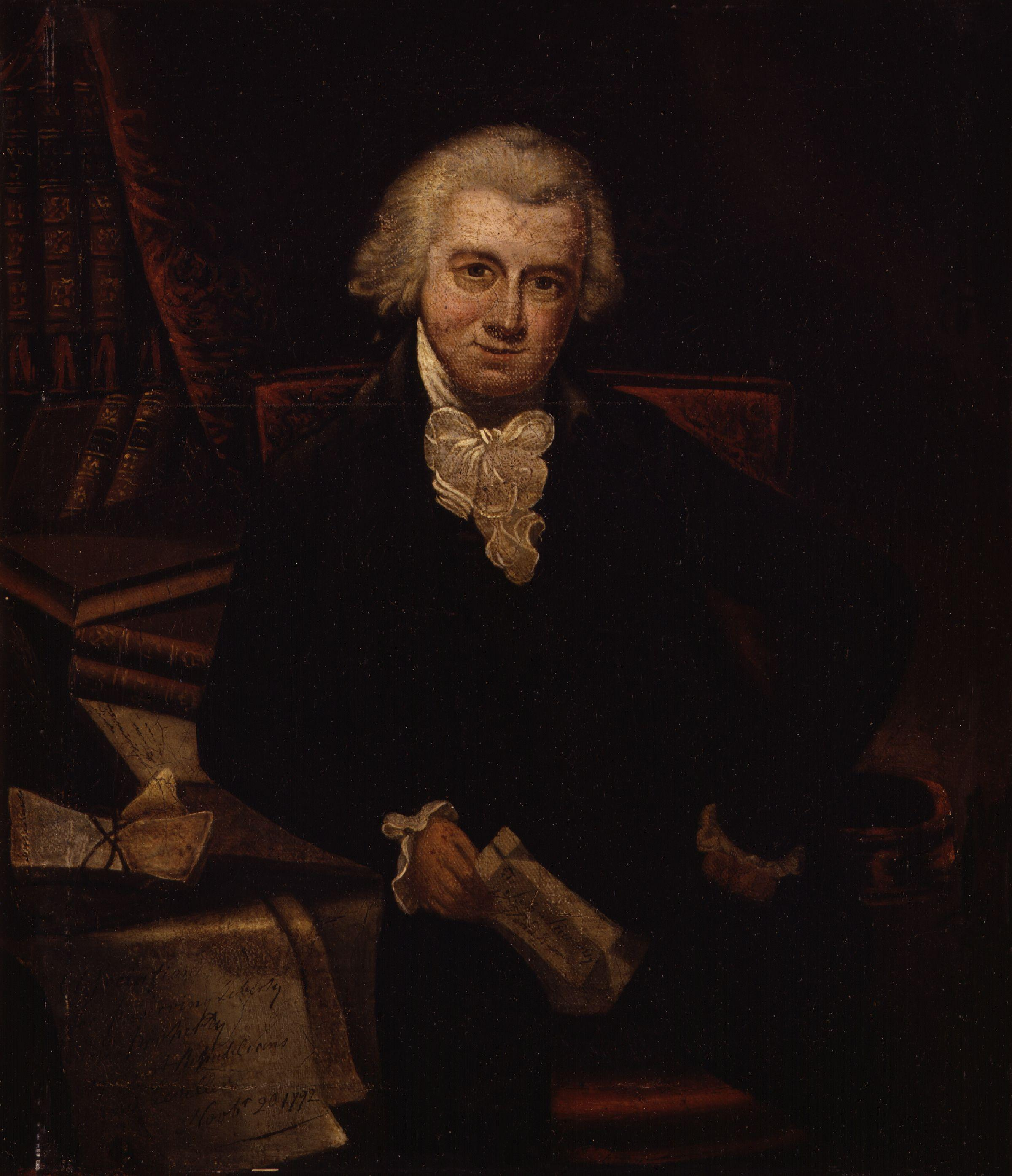 John Reeves, by Thomas Hardy, given to the National Portrait Gallery, London in 1933. All images in this batch have a known author, but have manually examined for strong evidence that the author was dead before 1939, such as approximate death dates, birth dates, floruit dates, and publication dates.